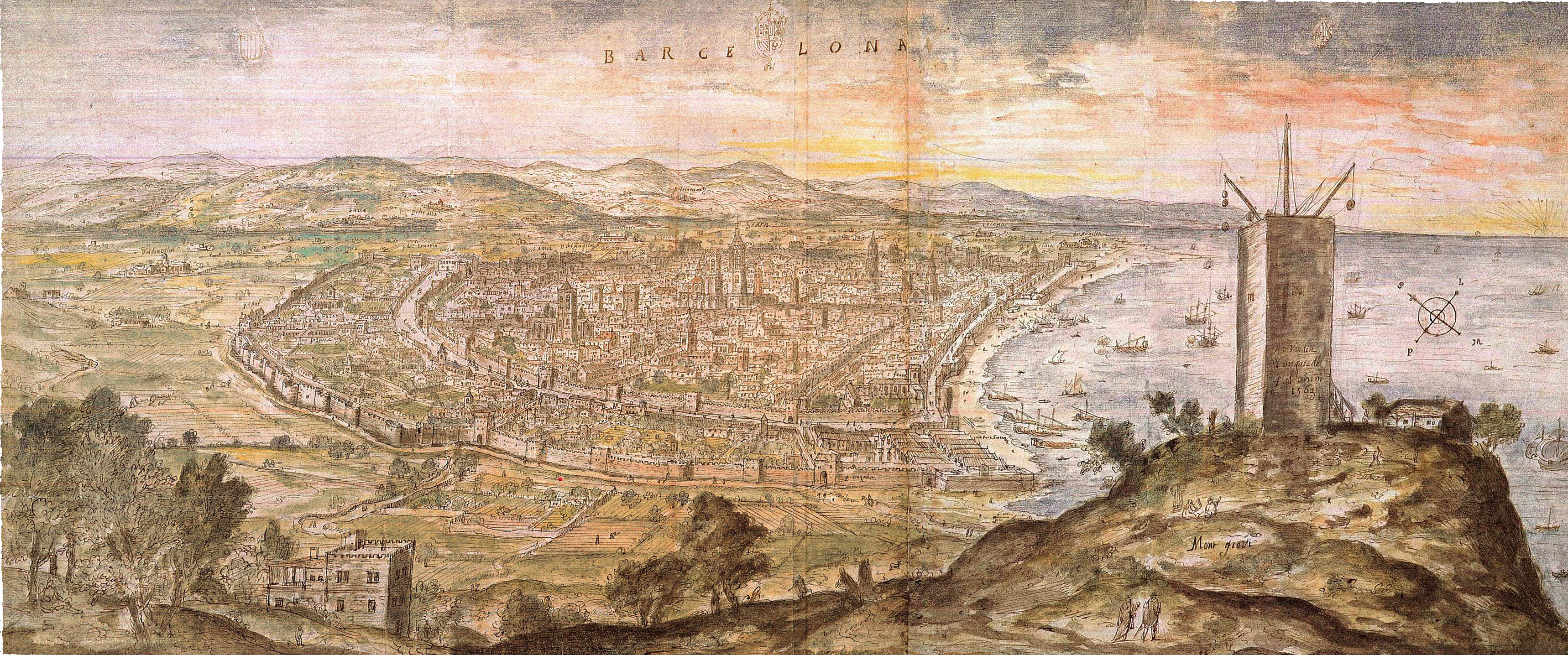 Drawing by Antony van den Wyngaerde of Barcelona